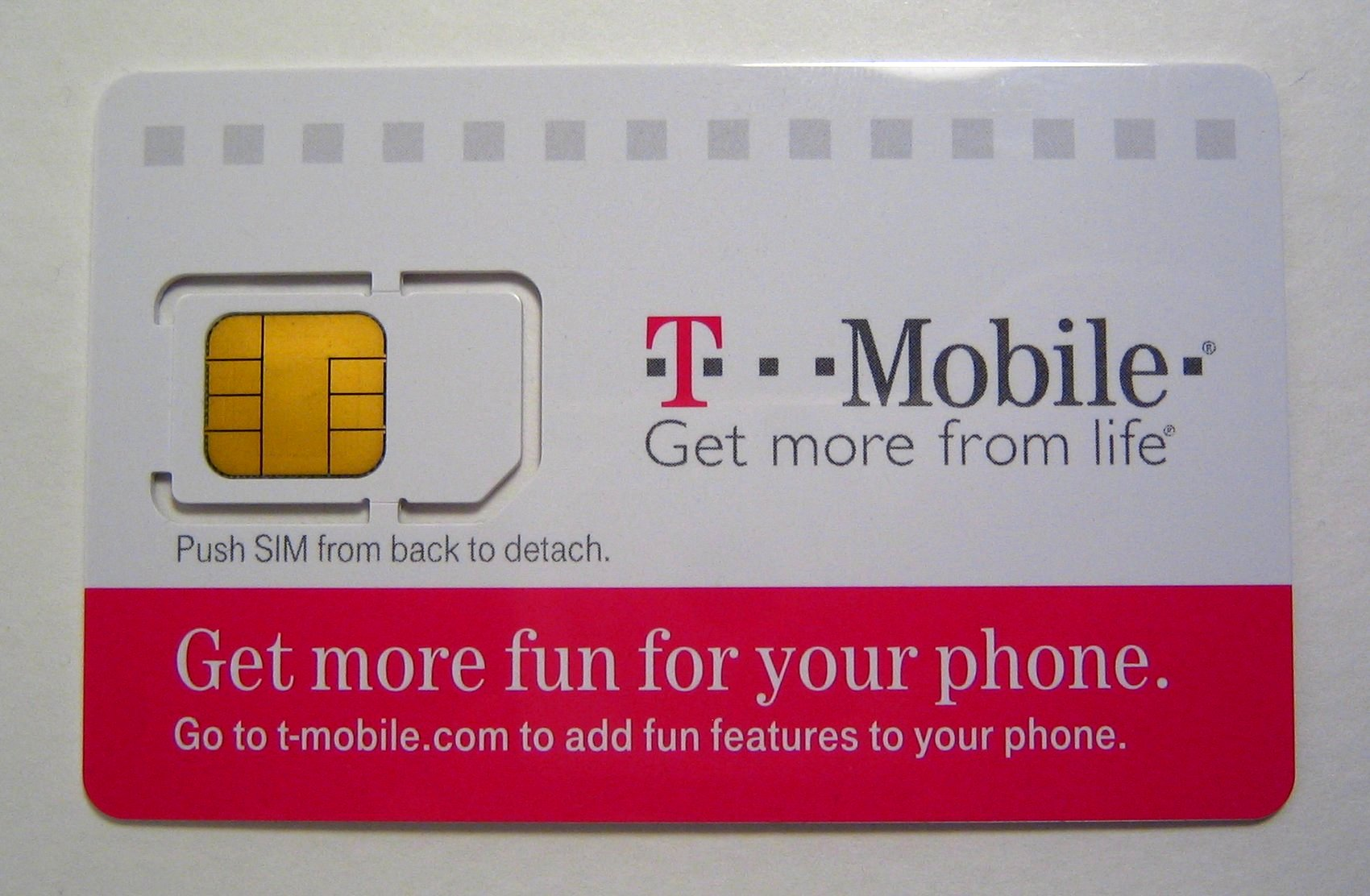 A SIM card from T-Mobile US for T-Mobile To Go pay as you go service.